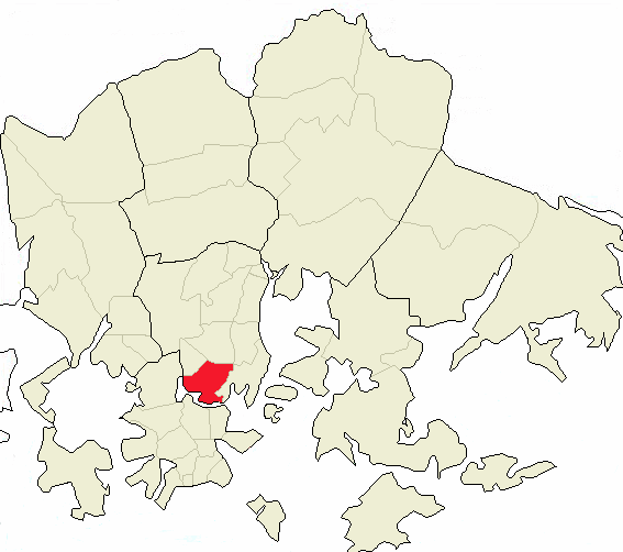 Map showing the district of Kallio in Helsinki, Finland Source: Self-made, based on Image:Helsinki suurpiirit ja kaupunginosat.png Author: BishkekRocks